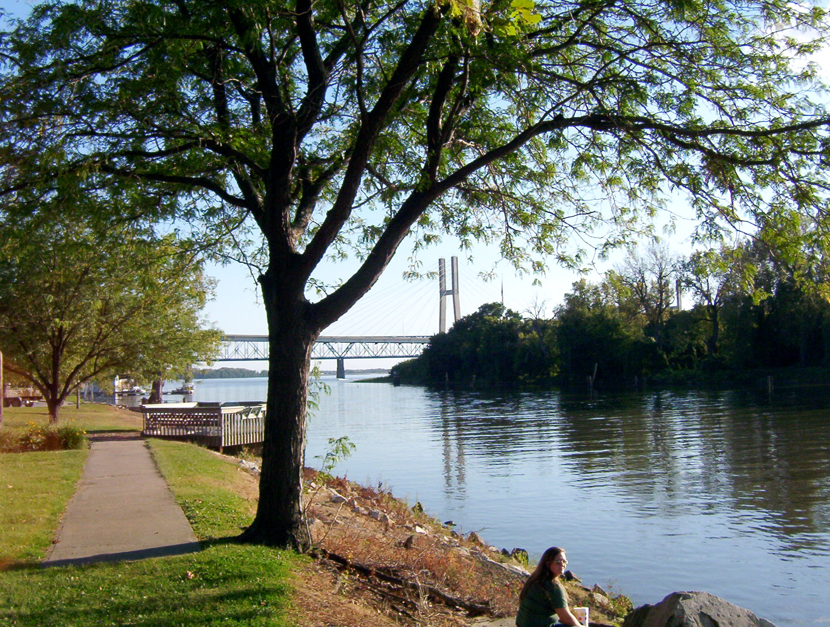 Taken from a riverfront park on the east bank of the Mississippi River in Quincy, Illinois. U.S. Highway 24 is routed along the bridge in the background.